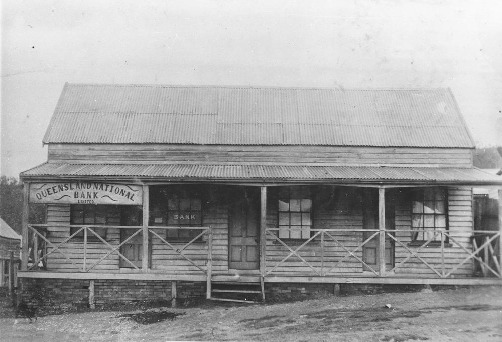 Queensland National Bank, Thornborough, ca. 1888. The Thornborough branch of the Queensland National Bank opened 9 January 1877 and closed 31 October 1891.